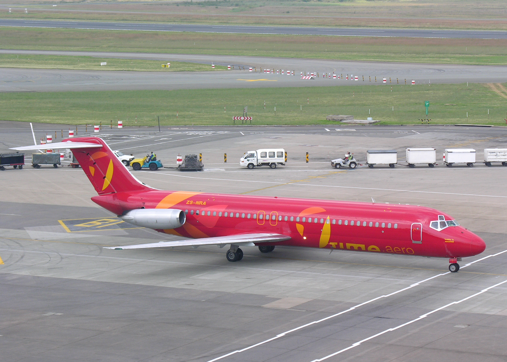 South Africa, 1time Douglas DC-9-32 ZS-NRA taxiing at Johannesburg's O.R. Tambo International Airport